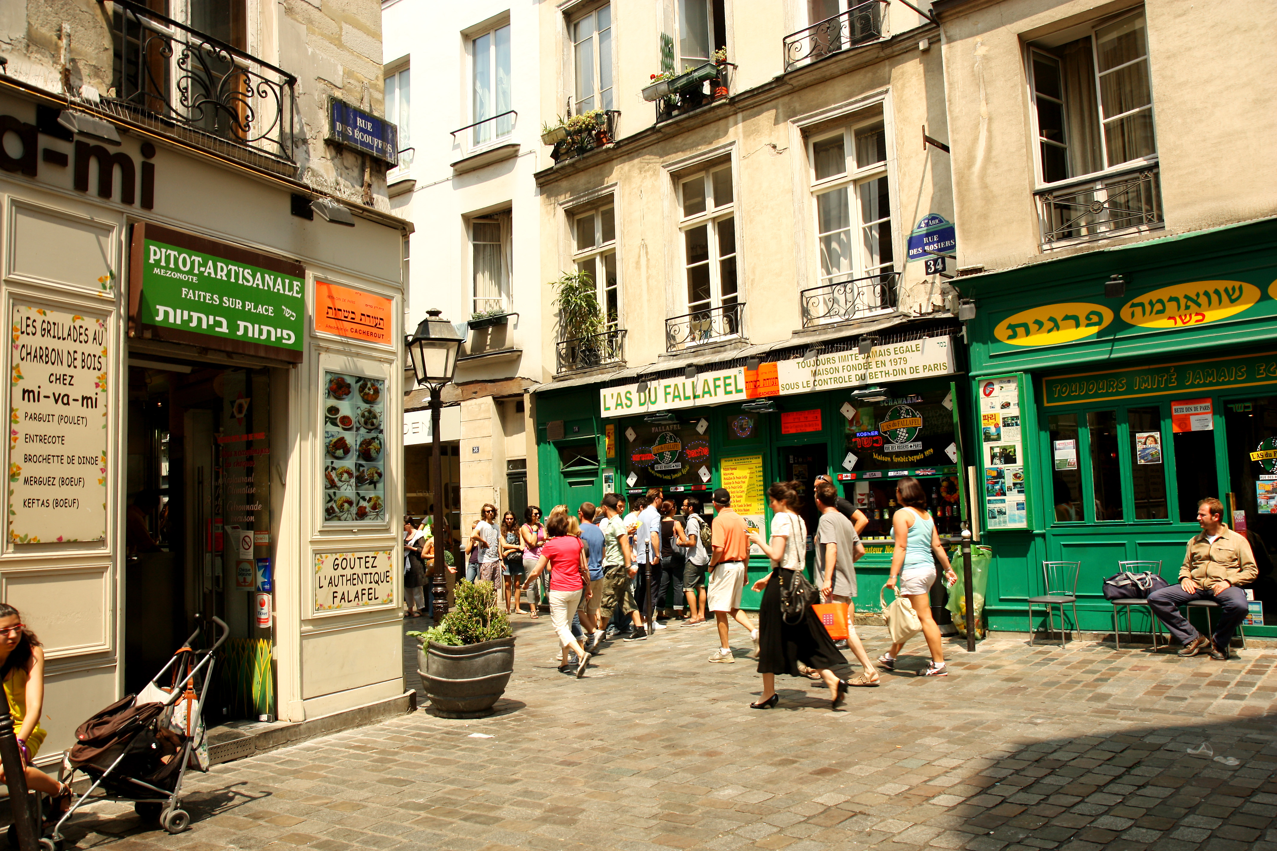 Kosher restaurants mi-va-mi 27 rue des Écouffes and L'As du Fallafel 34 rue des Rosiers, Marais, IVe arrondissement, Paris, France.